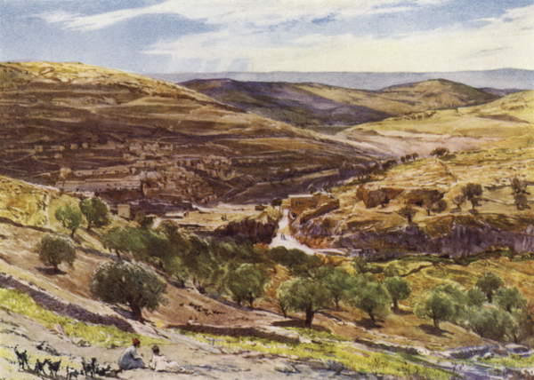 Valley of Hinnom, with Hill of Offence